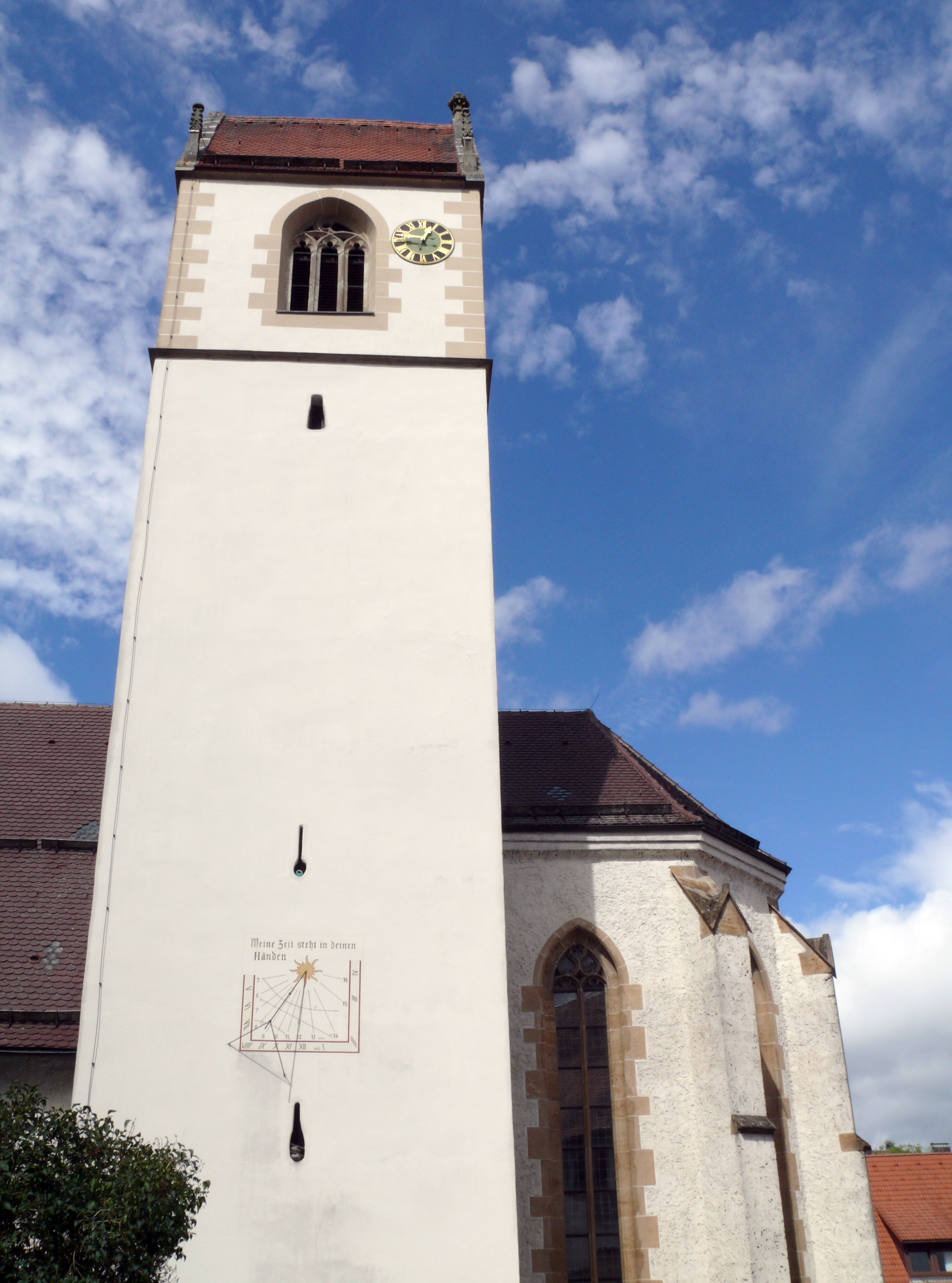 Bell tower of the Marienkirche in Upfingen (a district of Sankt Johann, Baden-Württemberg, Germany), seen from southeast.